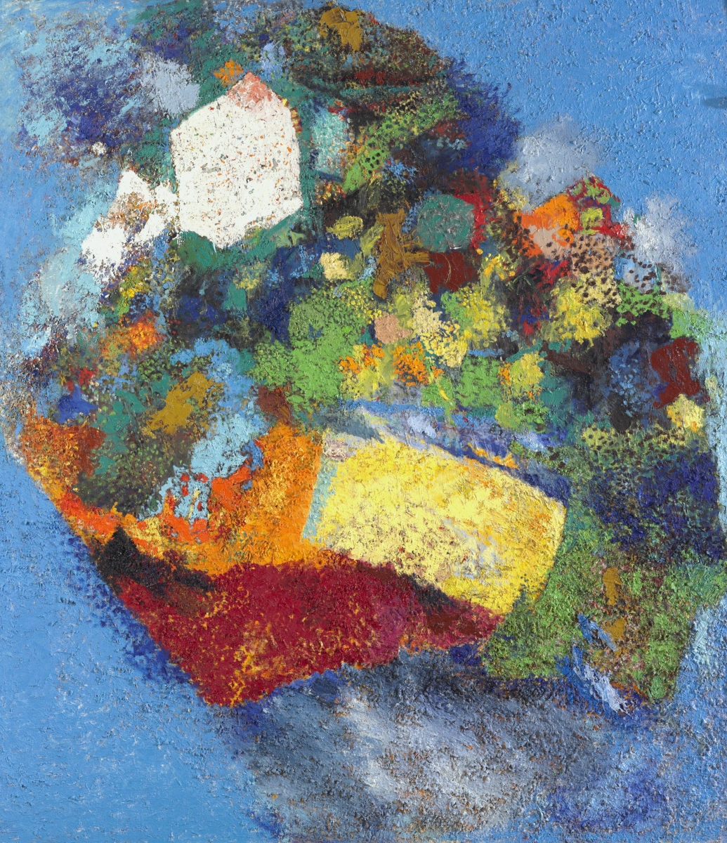 View from the window, oil on canvas, 230 x 200 cm (2006)